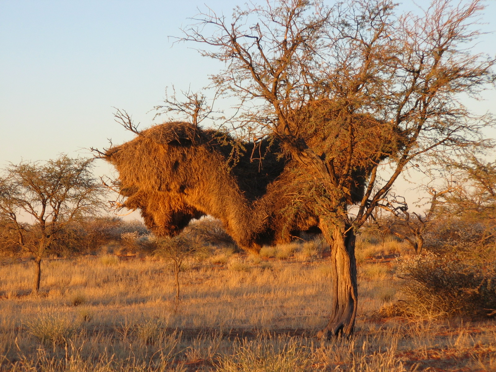 Weaverbird nest, Auoblodge, Namibia